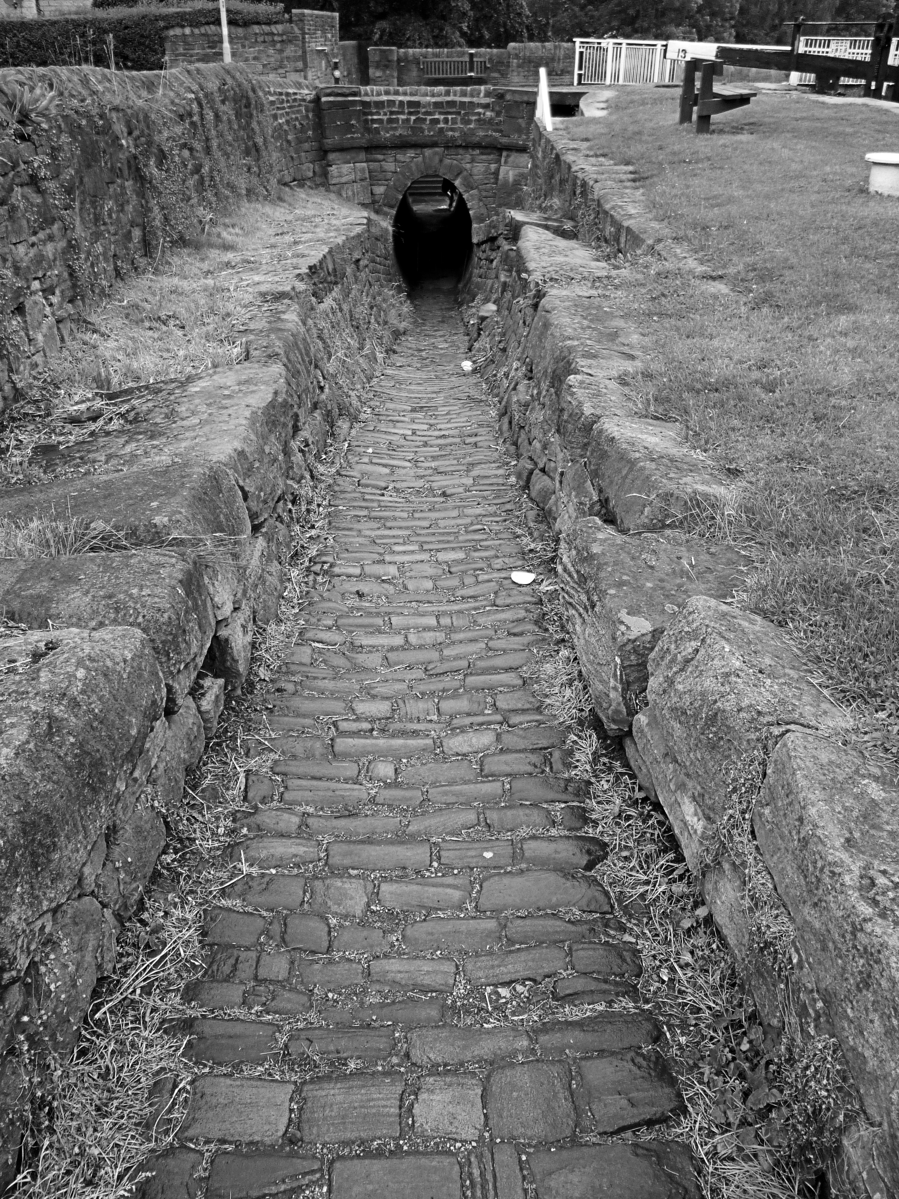 Passed these locks every night for the last 6 months so decided to stop & get a snap of something. Pedestrian tunnel under the main road.